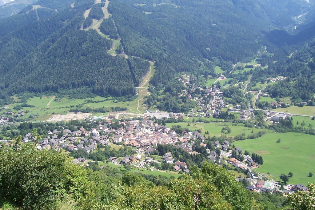 Panorama. Temù, Val Camonica, Italy.